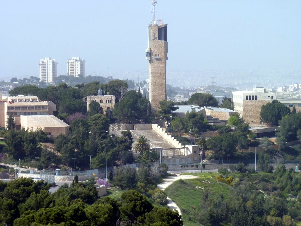 Hebrew University on Mt. Scopus, Jerusalem, Israel